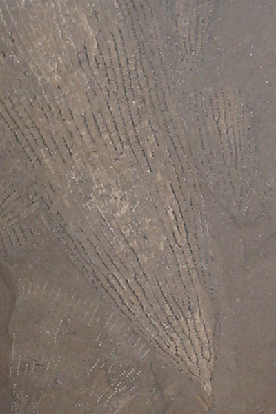 Graptolite (Rhabdinopora flabelliformis) colony on a chunk of graptolitic argillite.